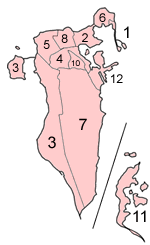 Map of the municipalities of Bahrain (which existed until 2002), numbered in English alphabetical order (using a straight transliteration, rather than translation) Al Hadd Al Manamah (Manama) Al Mintaqah al Gharbiyah (Western) Al Mintaqah al Wusta (Central) Al Mintaqah al Shamaliyah (Northern) Al Muharraq Ar Rifa' wa al Mintaqah al Janubiyah (Rifa and Southern) Jidd Haffs Madinat Hamad (not on map; was created in 1991 and no proper reference material with it was found at the time this map was made) Madinat 'Isa Juzur Hawar (apparently entered out of order on the map) Sitrah The Hawar islands are more distant than shown in this map, hence the line.